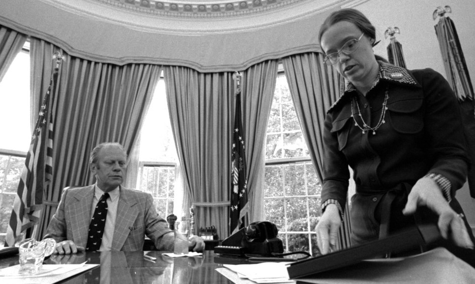 Photo of Dorothy Downton with U.S. President Gerald Ford in the White House Oval Office